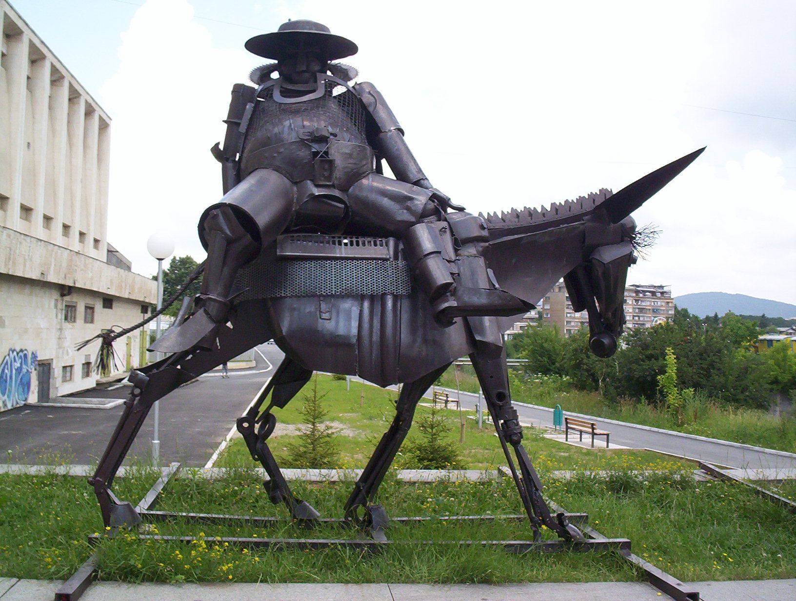 Sculpture of Sancho Panza near House of Humour and Satire in Gabrovo, Bulgaria.